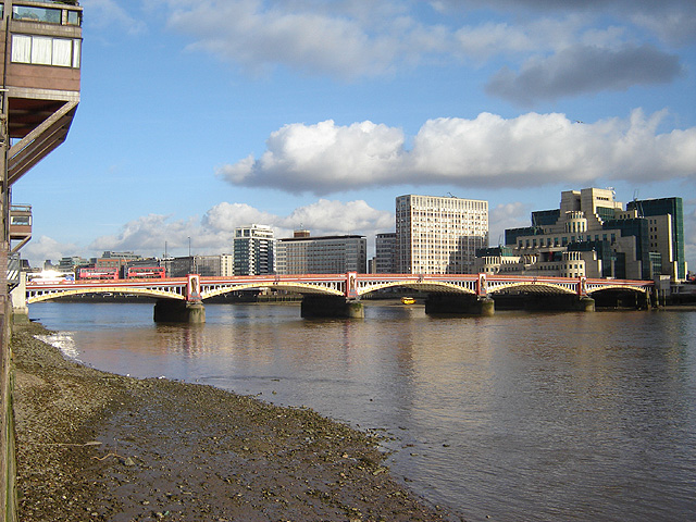 Vauxhall Bridge, River Thames, London, looking downstream from the north bank. 21 January 2006. Photographer: Fin Fahey.